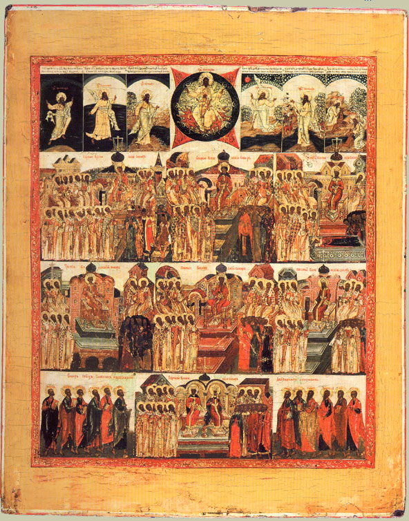 The first seven Ecumenical Councils